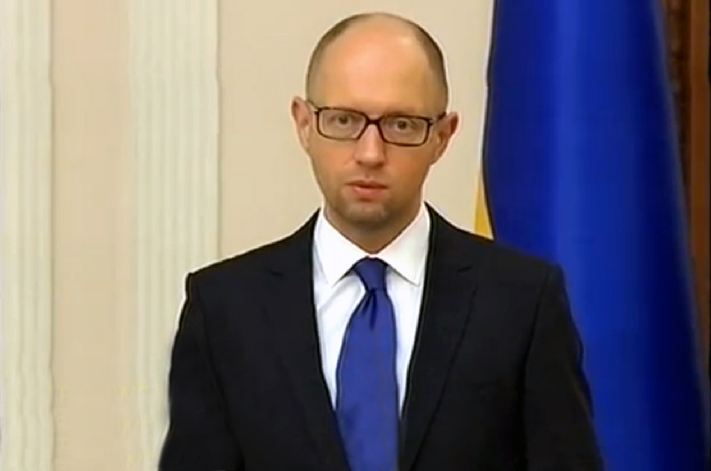 Arseniy Yatsenyuk, August 27, 2014.